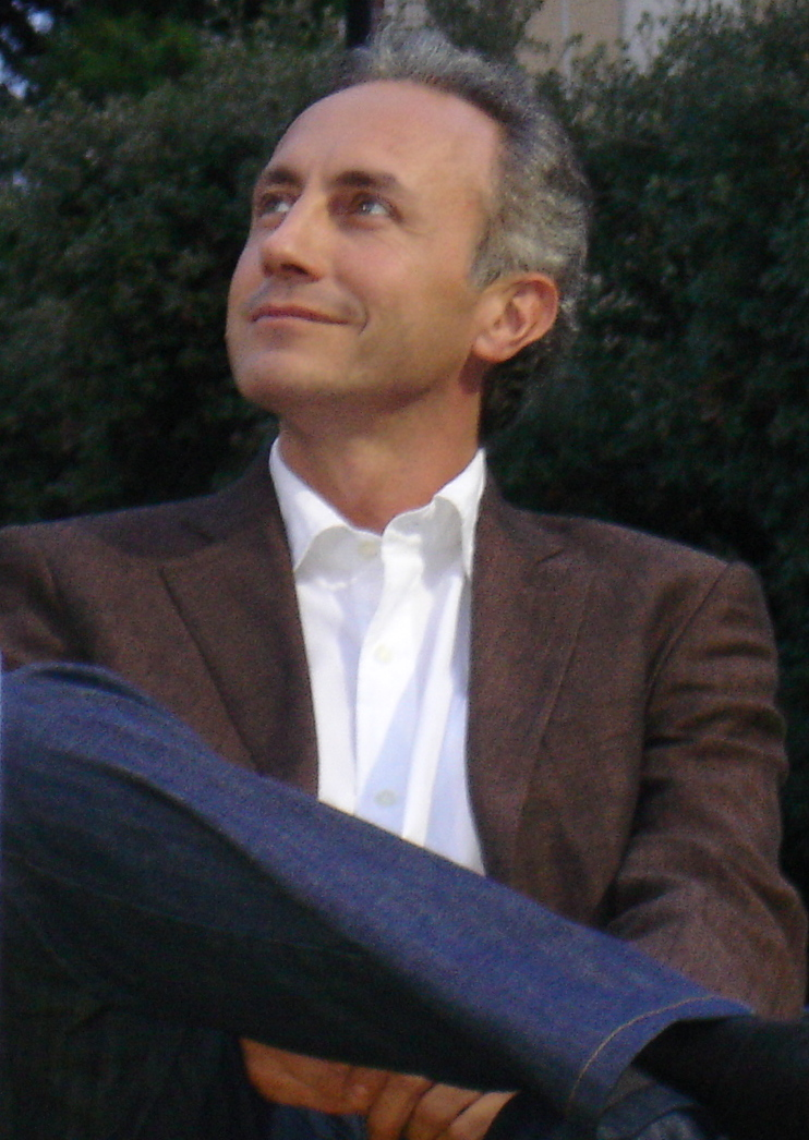 Marco Travaglio - photo 2